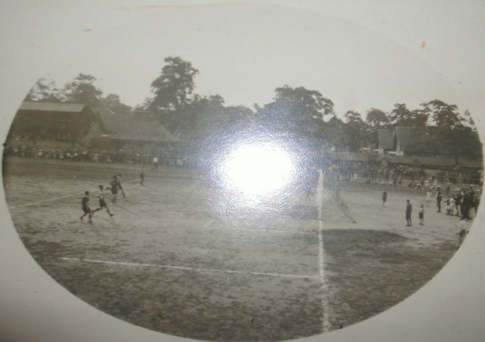 Match in the historic time